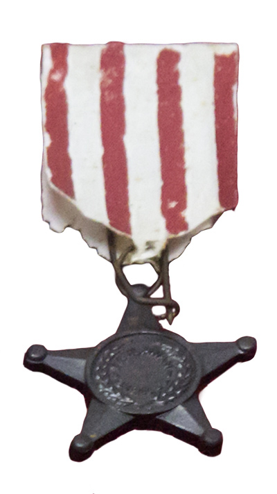 Bintang Gerilya medal received by the late Honggowongso for his contributions to the Indonesian National Revolution. Held in the collection of Monumen Jogja Kembali